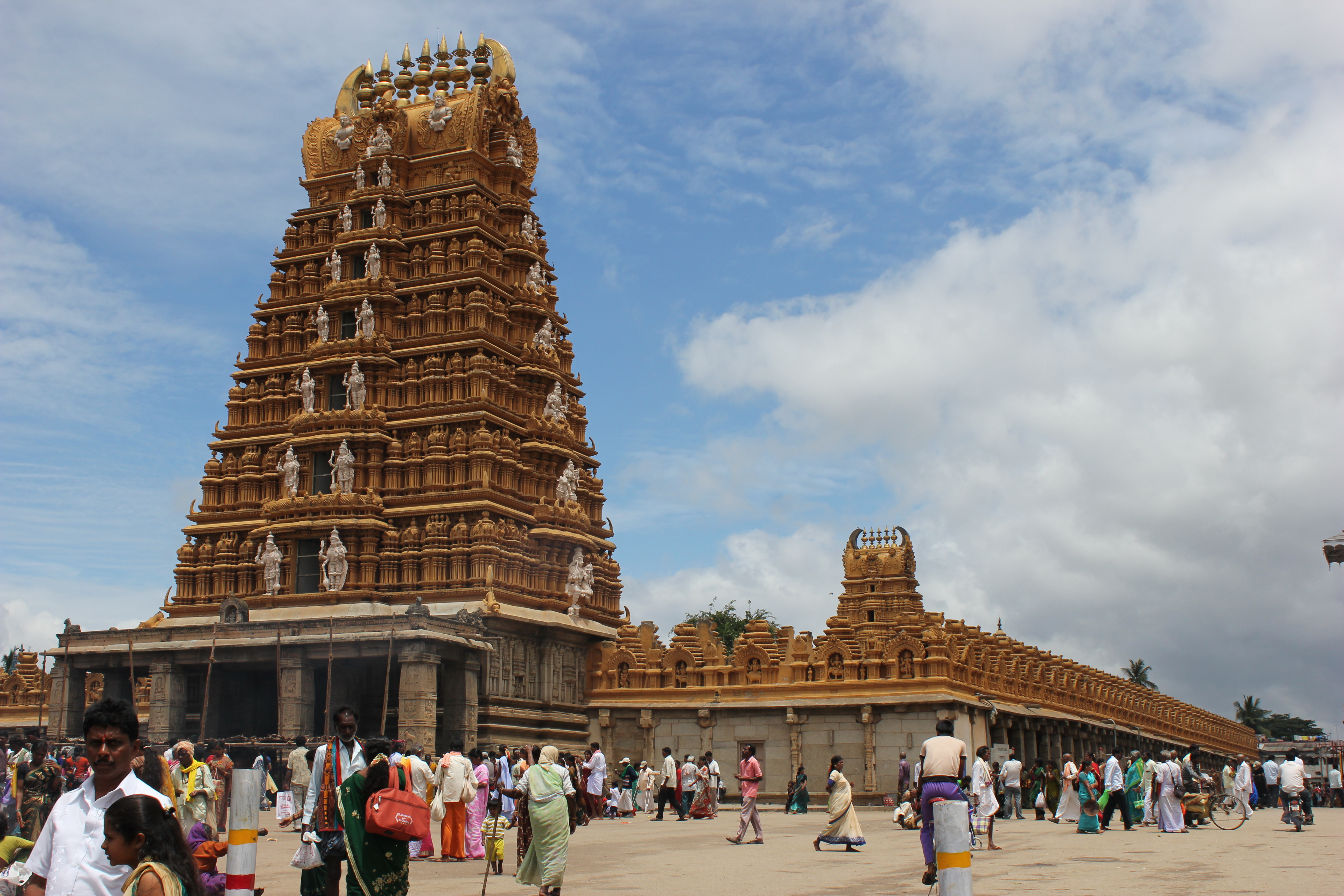 This photograph was taken by me at the Srikanteshvara temple (also spelt Srikanteshwara) in Nanjangud, Mysore district, Karnataka state, India. The original consecration of the temple is ascribed to the Western Ganga Dynasty in about the 9th-10th century. Later contributions were made by kings of the Chola Dynasty, the Hoysala Empire and the Mysore kingdom. The overall architectural style is Dravidian.